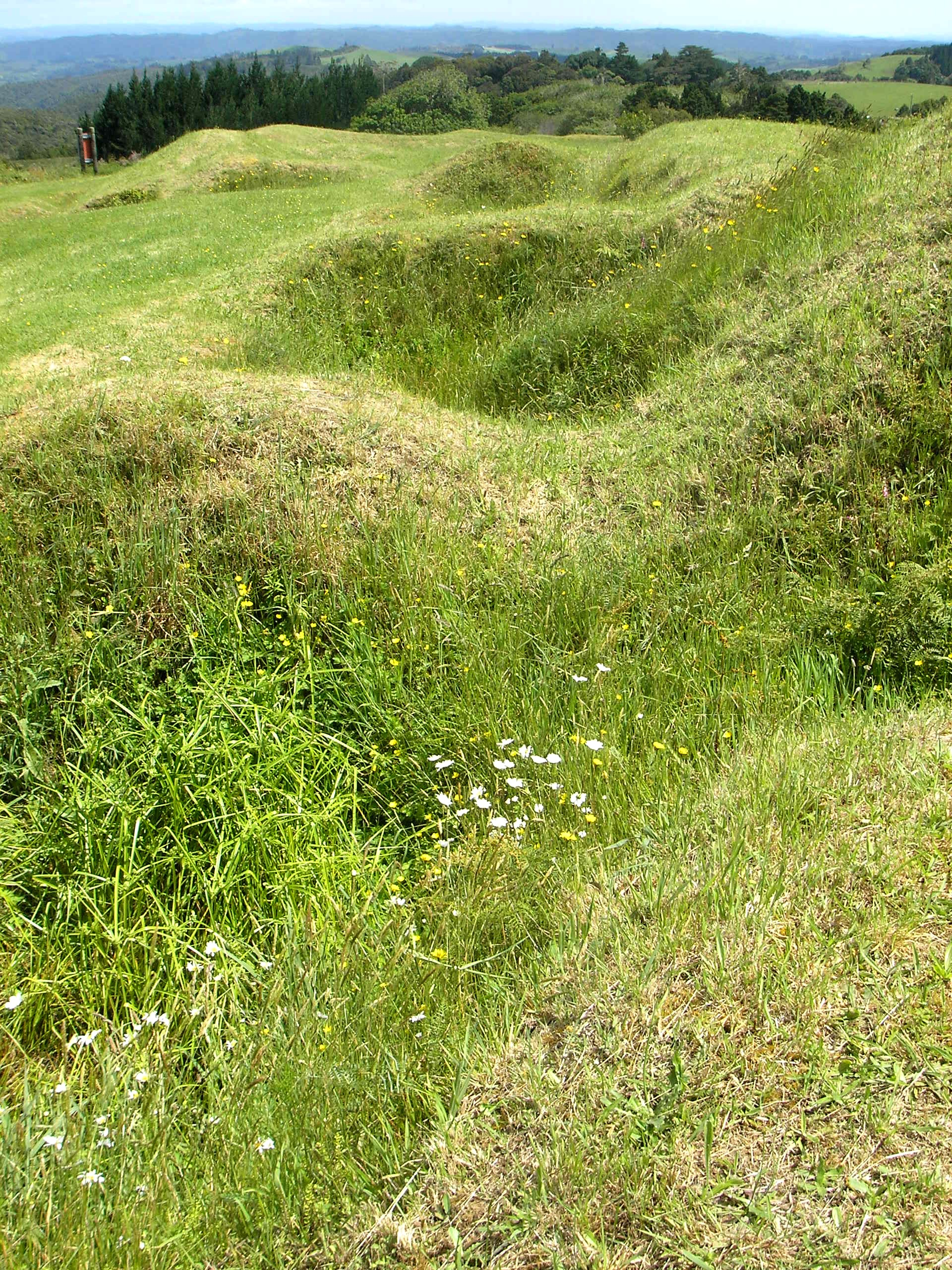 Landward side of pa fortifications, looking towards the advanced British position. Photograph taken by author 2006